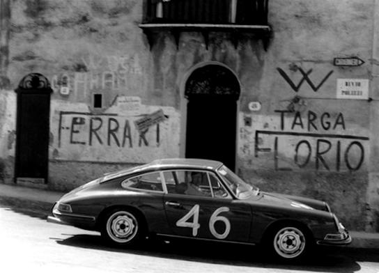 Porsche 911 S at Targa Florio, Collesano, on 14 May 1967. Driven by Bernard Cahier and/or Jean Claude Killy. They ended in 7th place overall.[1]